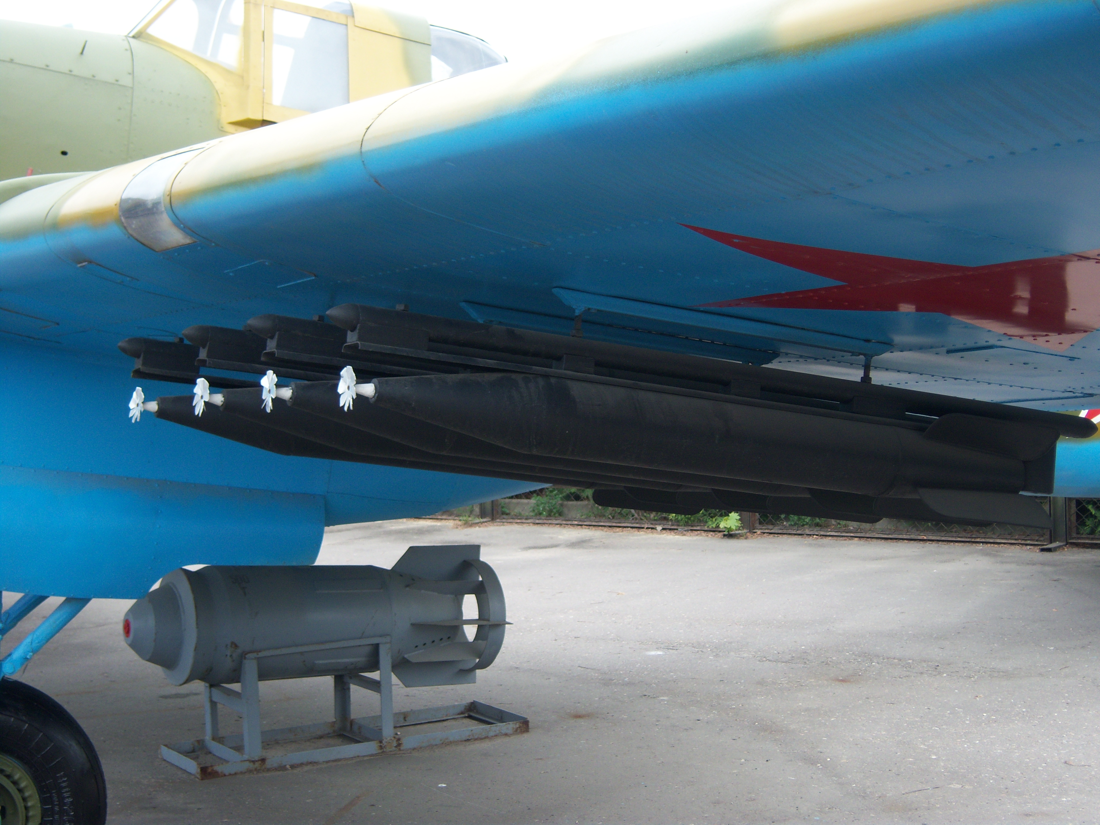 Missiles under the wing of the Il-2